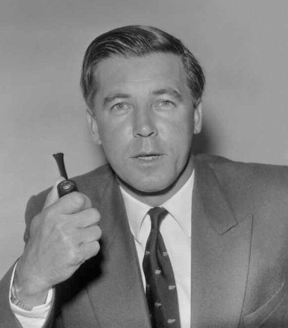 Martin Paterson Donnelly